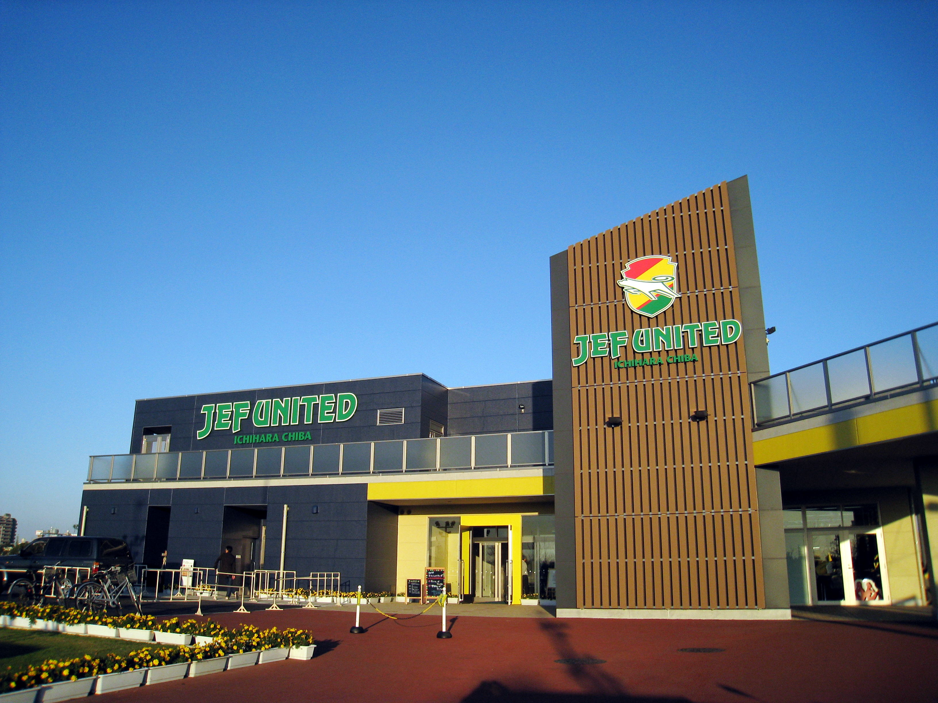 JEF-United Ichihara-Chiba Clubhouse.